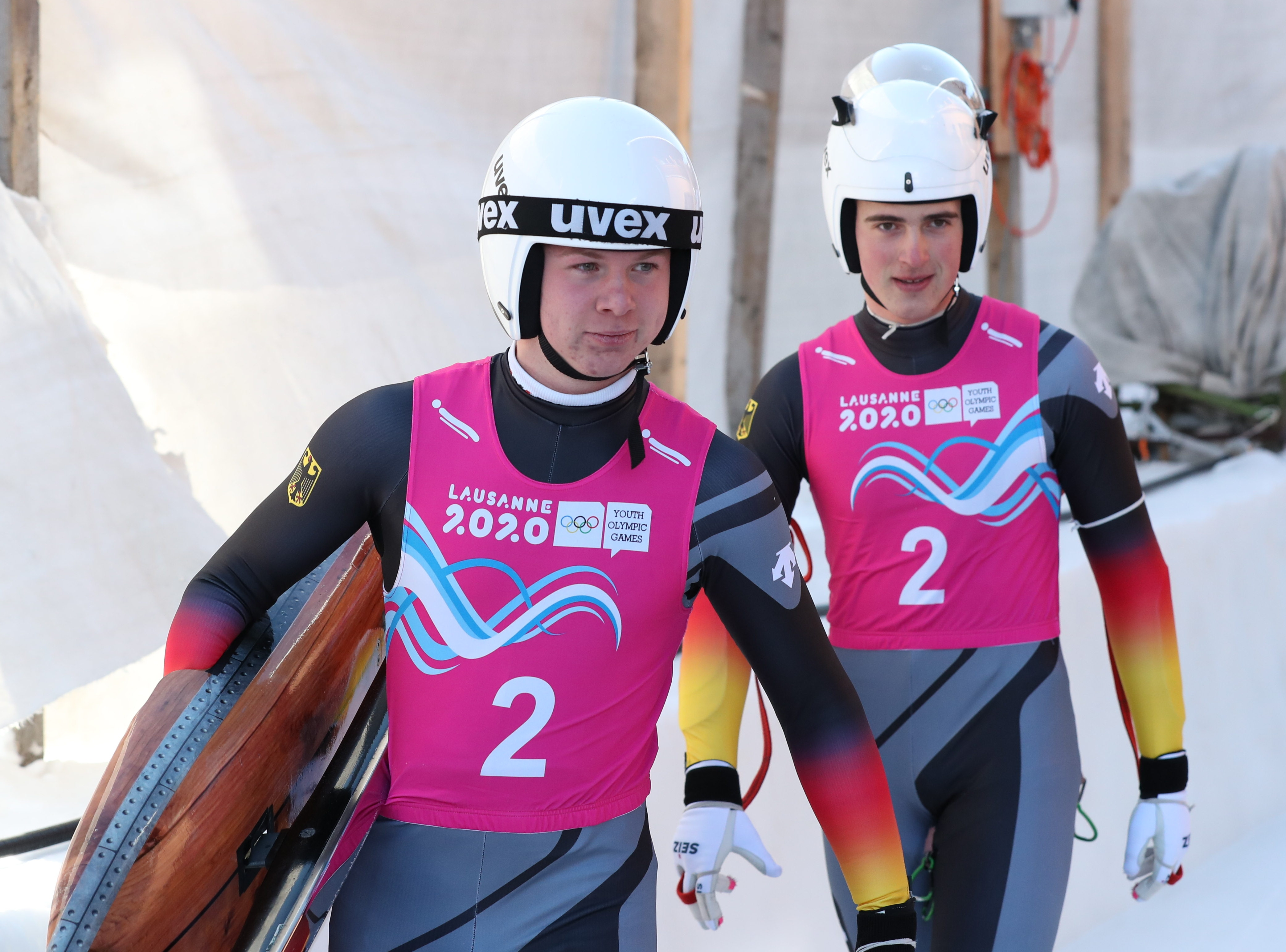 2nd run Luge Men's Double at the 2020 Winter Youth Olympics in Lausanne